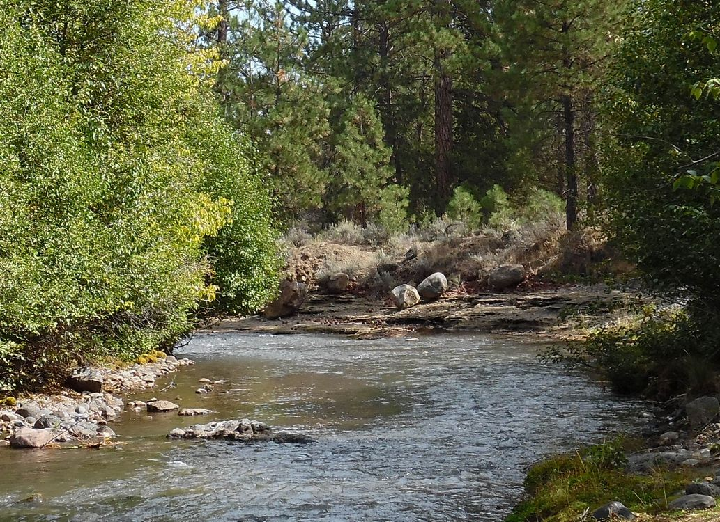 Whychus Creek flowing through Sisters State Park in Sisters Oregon. Sister State Park is undeveloped; however, there are two adjacent city park that have day-use and camping facilities. The headwaters of Whychus Creek are in the Three Sisters Wilderness area.